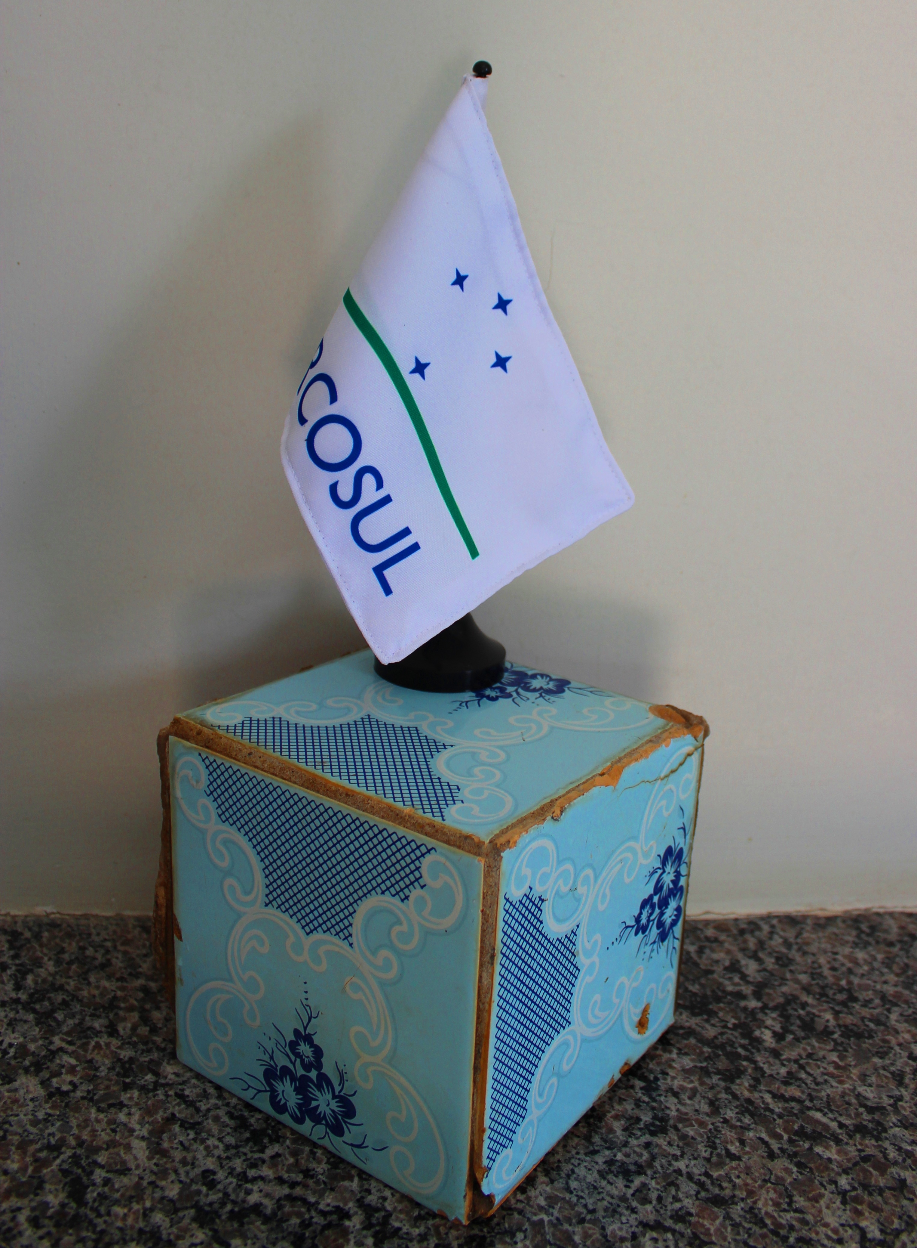 Azulejo and Mercusur flag.